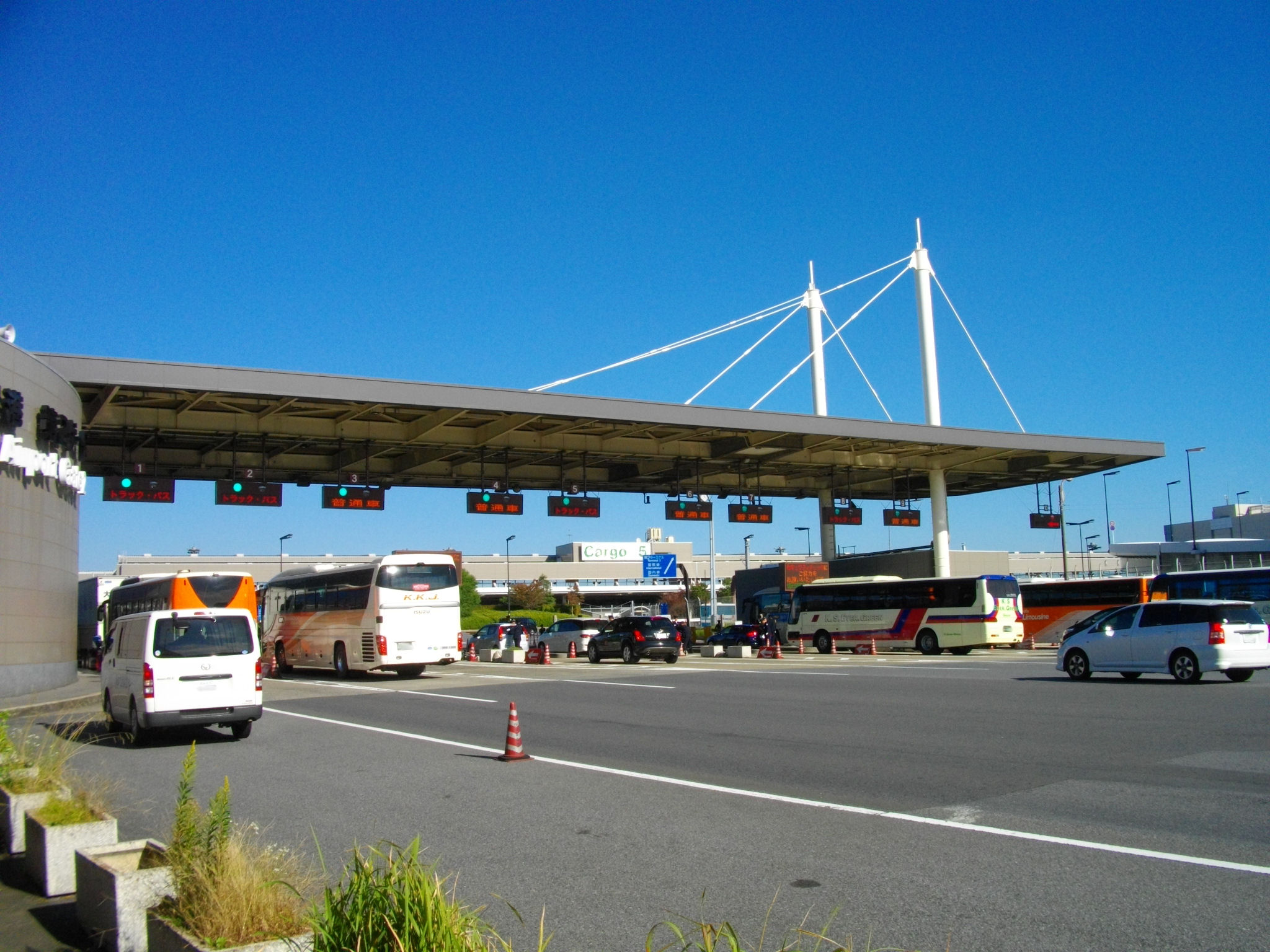 Narita International Airport Gate 2